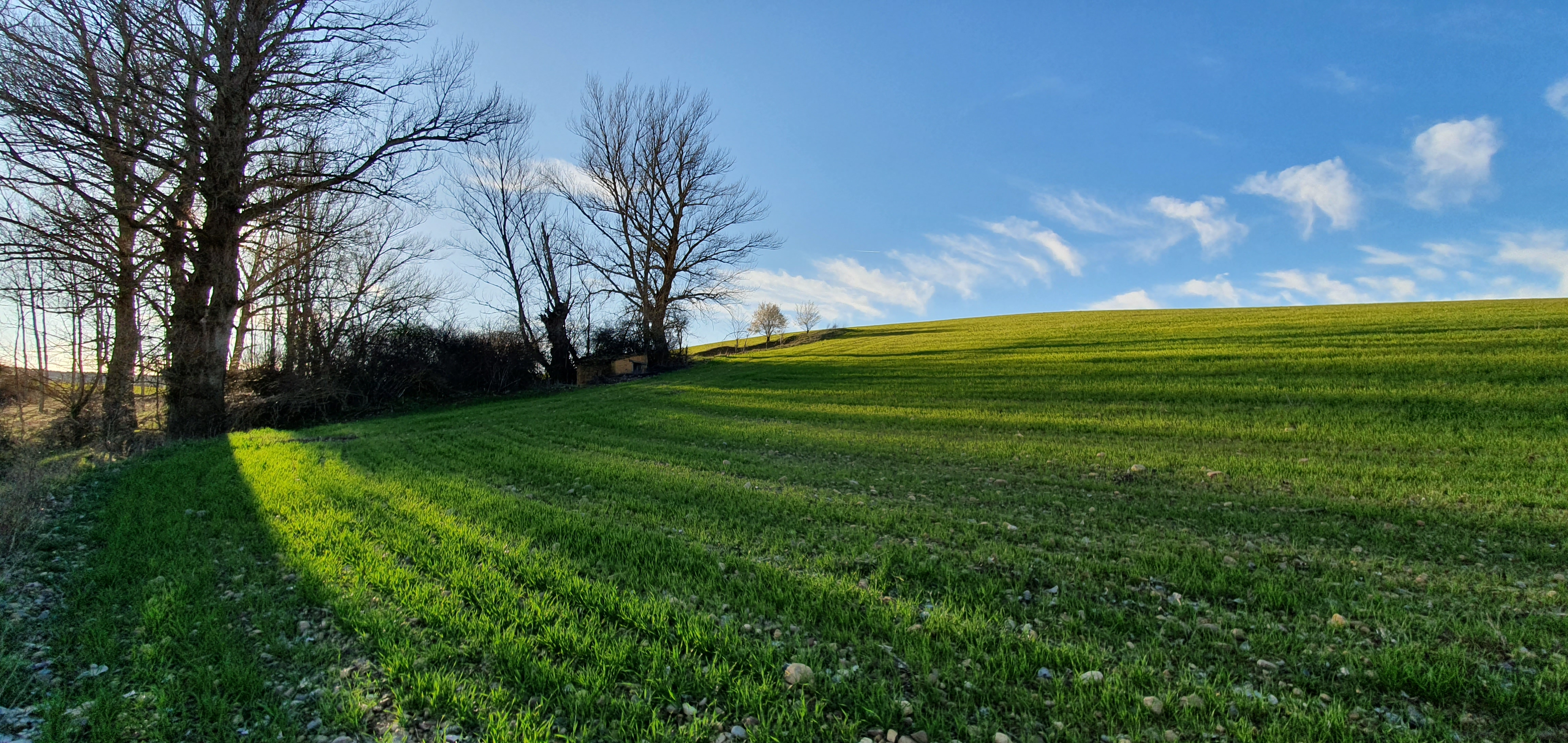 Villamelendro de Valdavia - Village fountain and Alto de la horca.